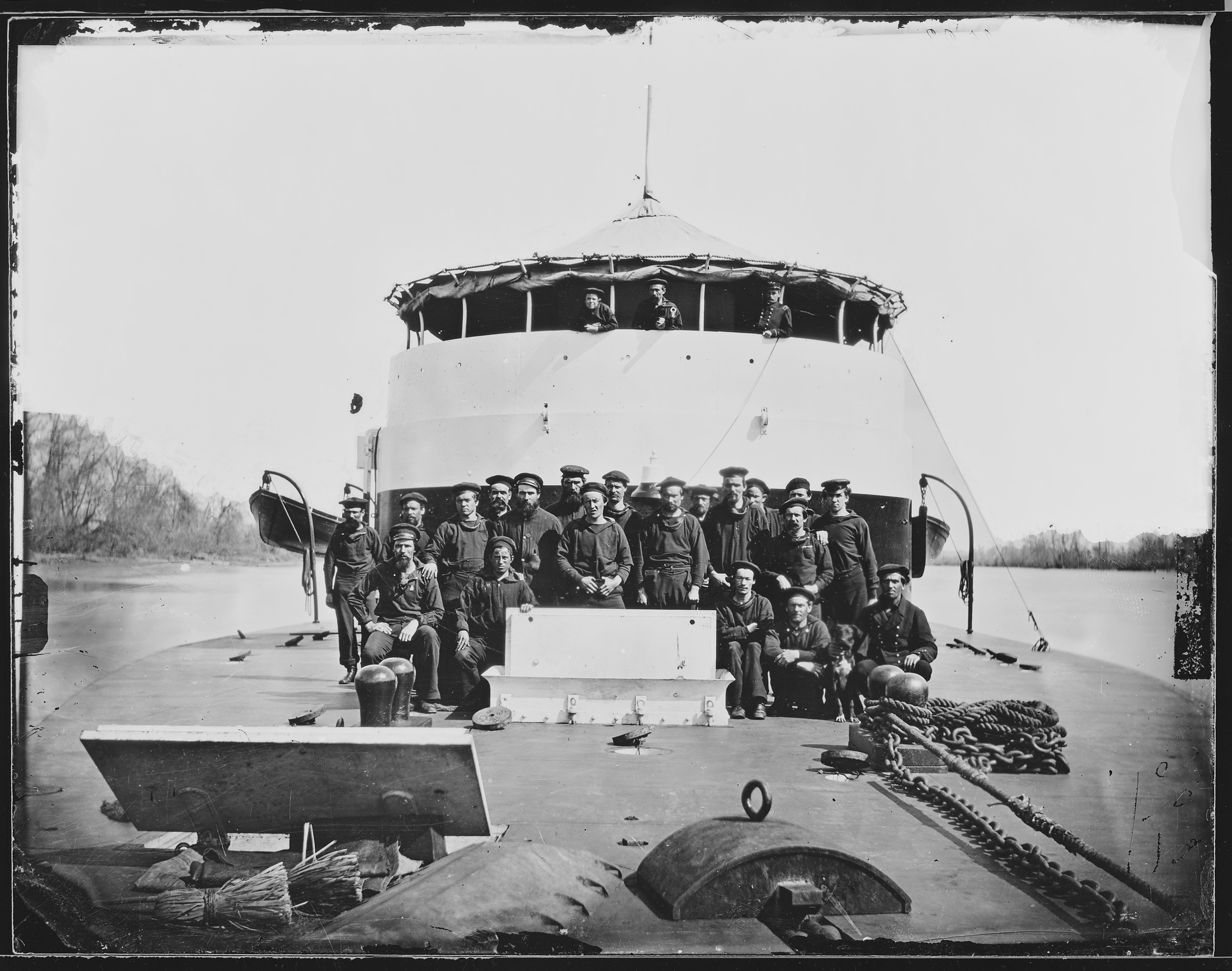 General notes: Use War and Conflict Number 191 when ordering a reproduction or requesting information about this image.